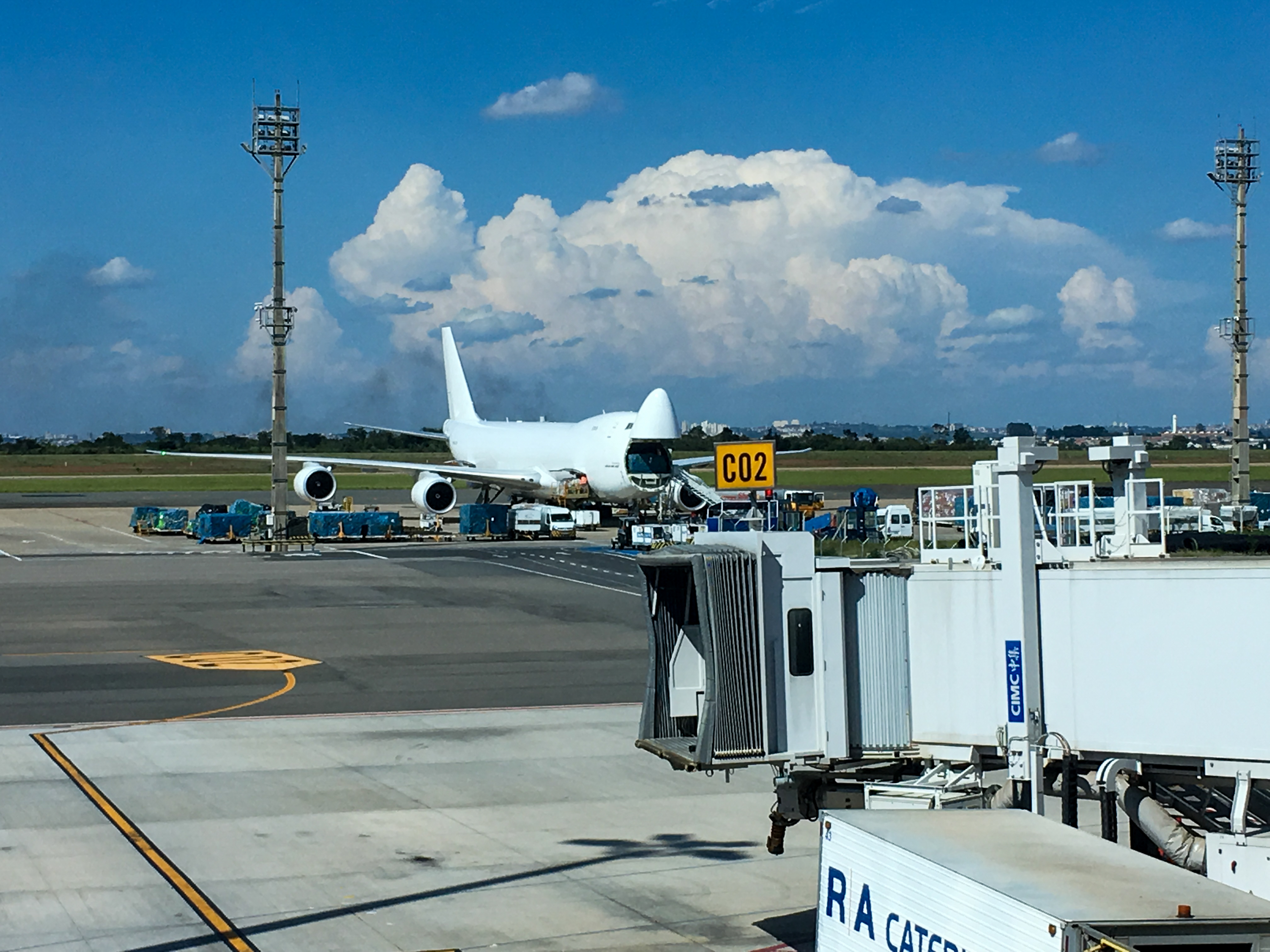 Cargo aircraft at Viracopos-Campinas International Airport, Brazil